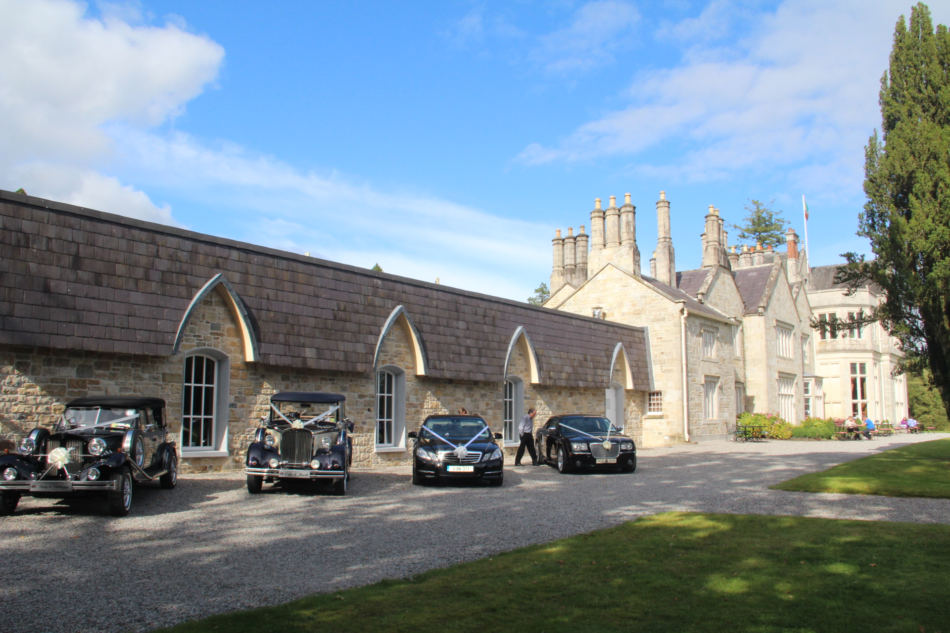 View of Castle from the function room side.